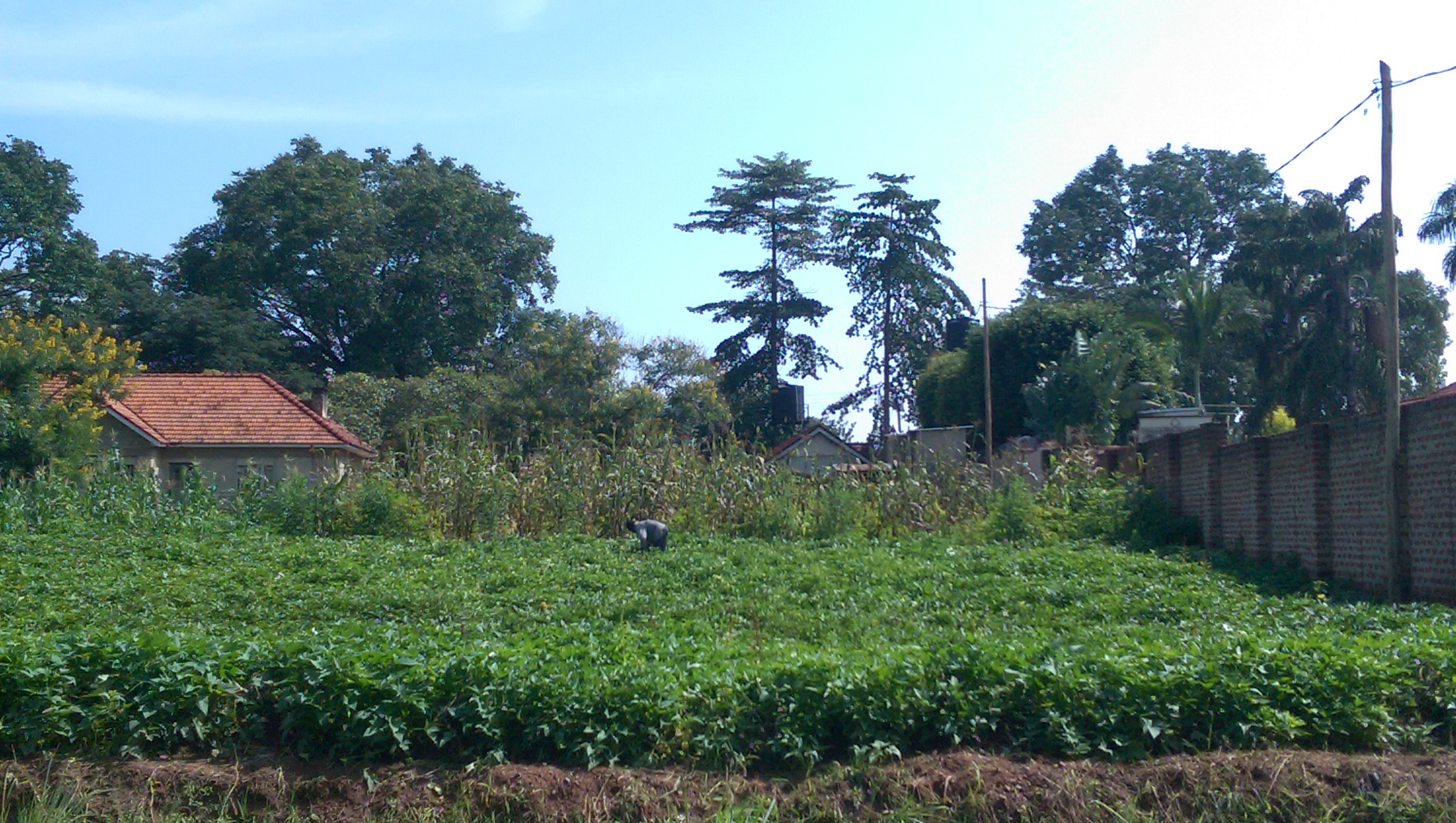 subsistence farmer working his sweet potato garden in Arua, Uganda. Sweet potatoes are among the staple foods of this region. This is an image of "African people at work" from Uganda